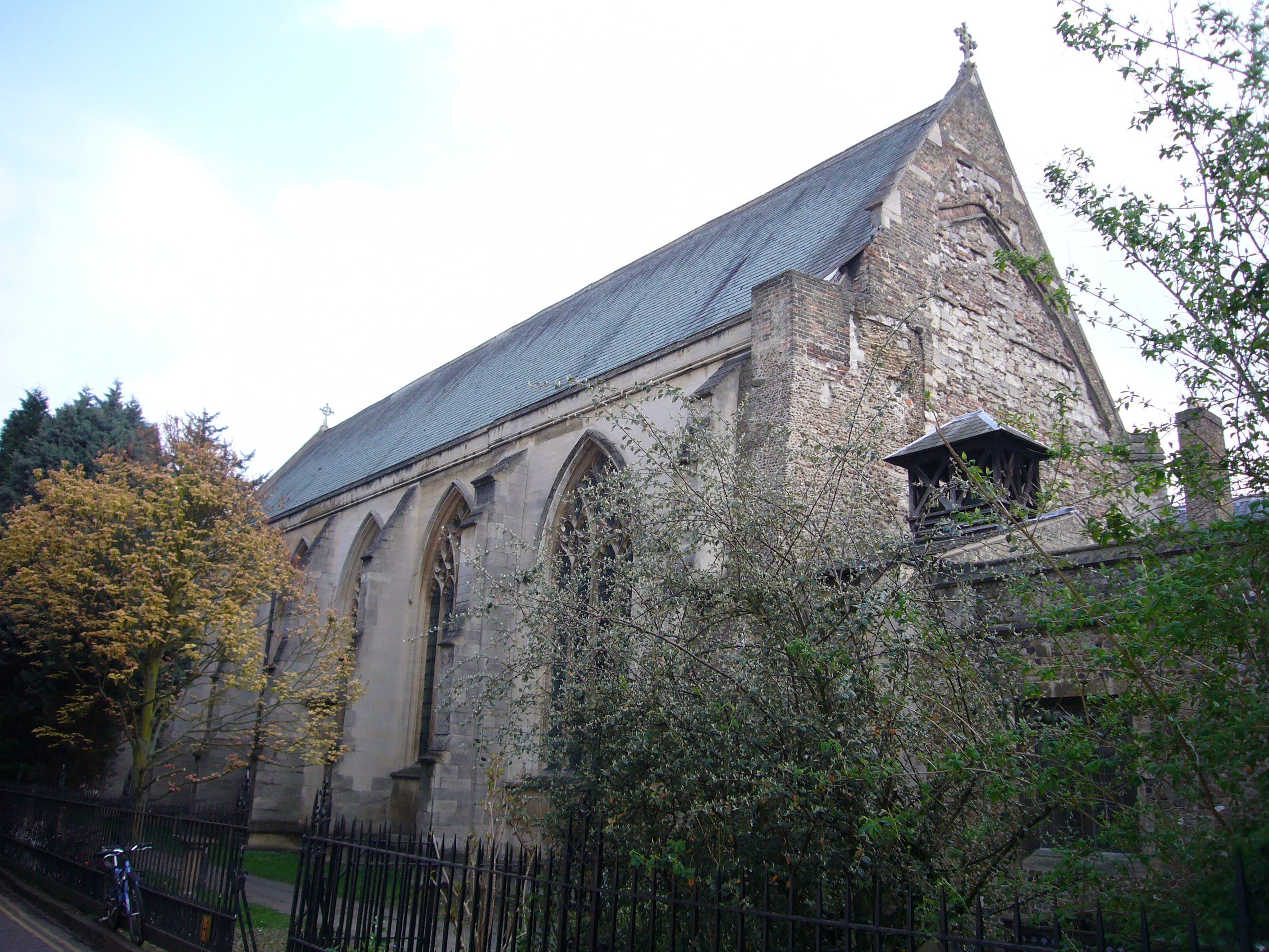 Church of St Mary The Less, aka Little Saint Mary's, Cambridge, UK